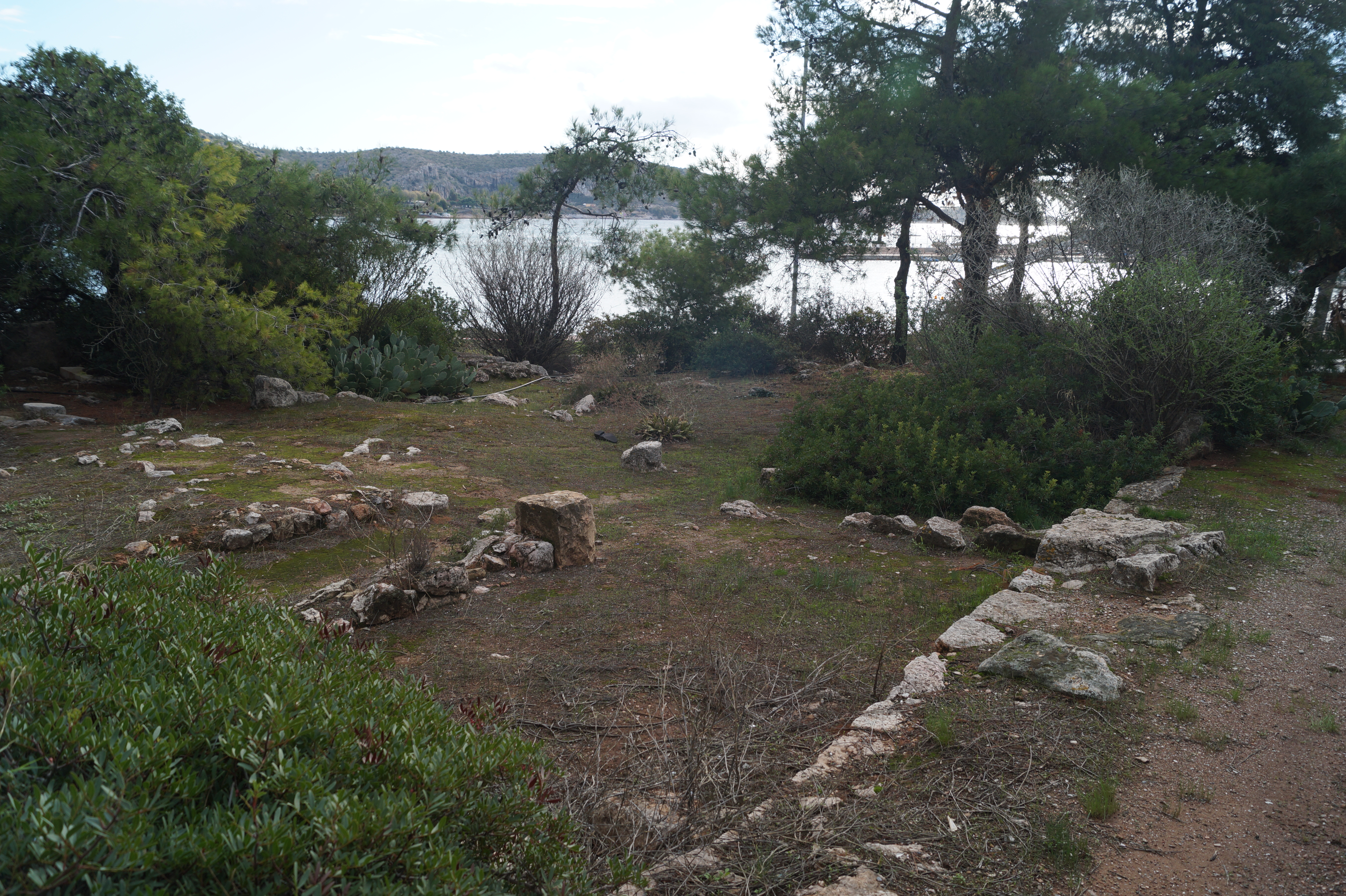 Vouliagmeni, Athens, Greece: South section of the priest house of Apollo Zoster sanctuary.